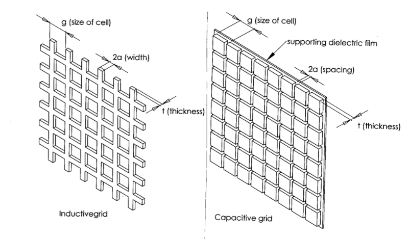 Diagram of capacitive and inductive grids used in metal mesh optical filters.